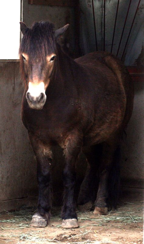 Exmoor pony